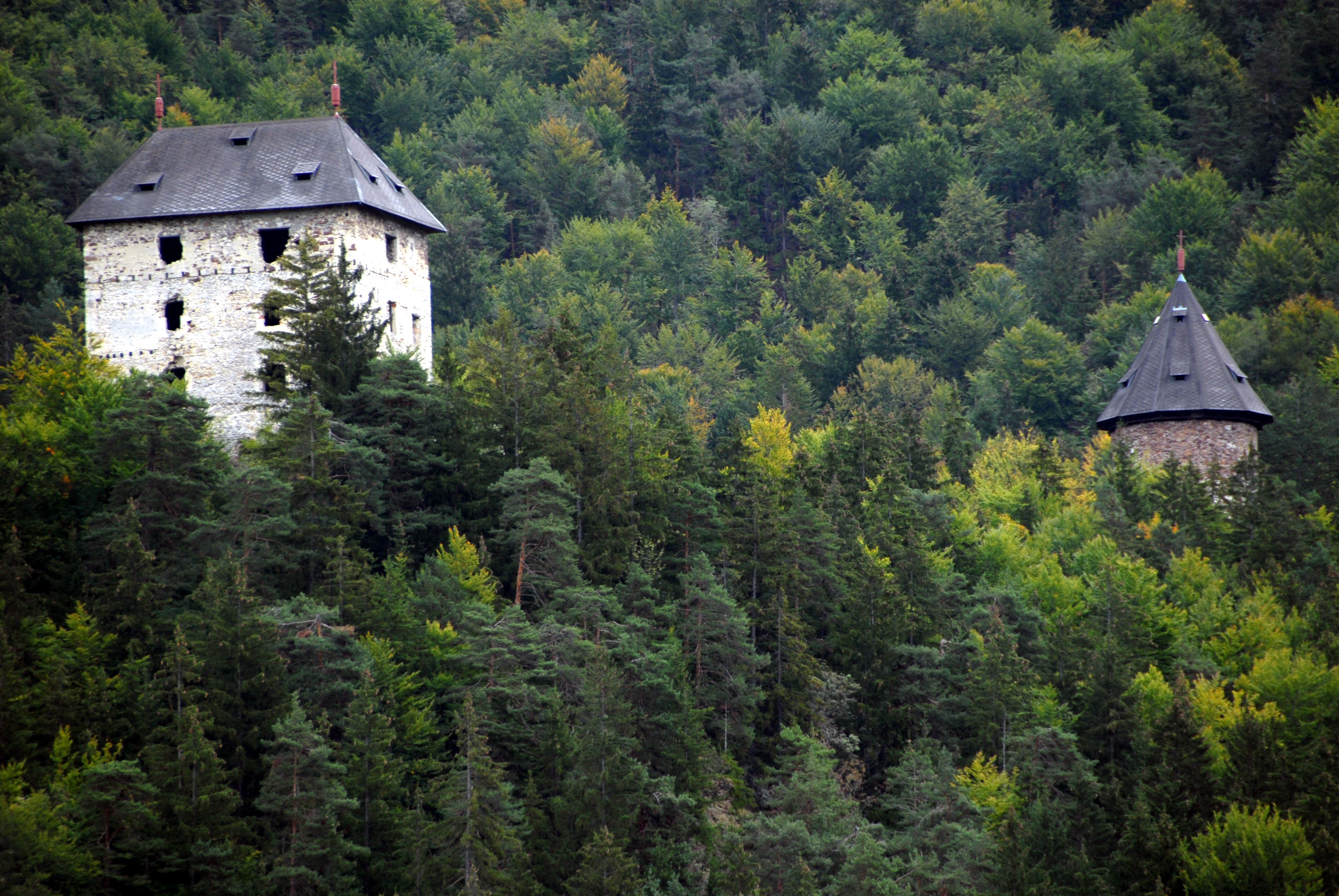 Castle ruins of Weissenegg, Ruden, Carinthia, Austria